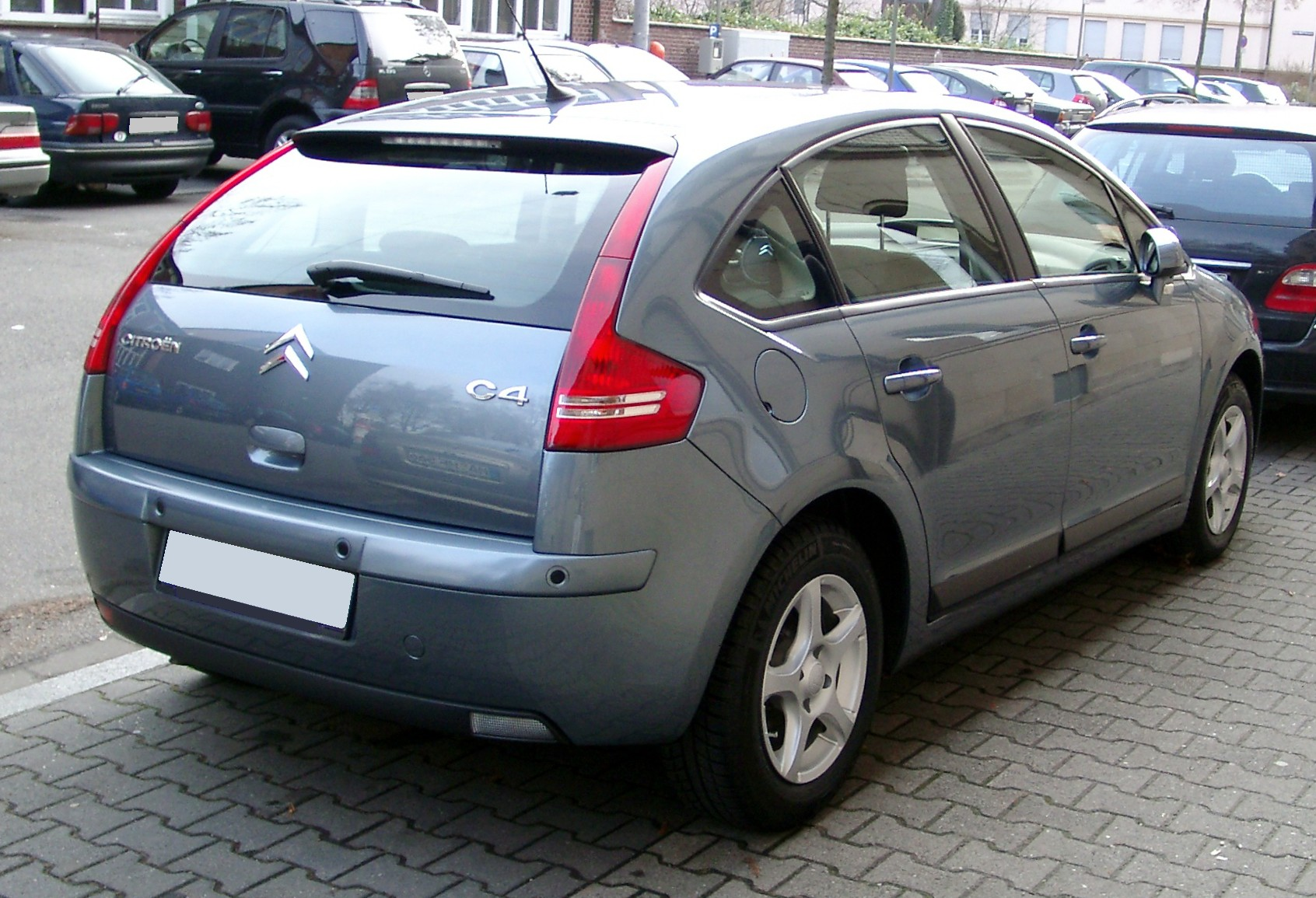 Citroën C4